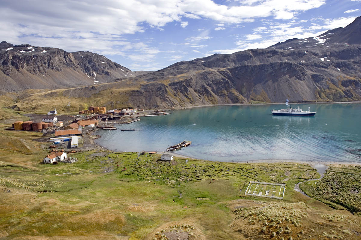 A cruise ship sits at anchor in Grytviken Harbour, Island of South Georgia, United Kingdom. At the bottom right is the white-fenced cemetery where famous explorer Ernest Shackleton is buried. To the left is the former Norwegian whaling station.